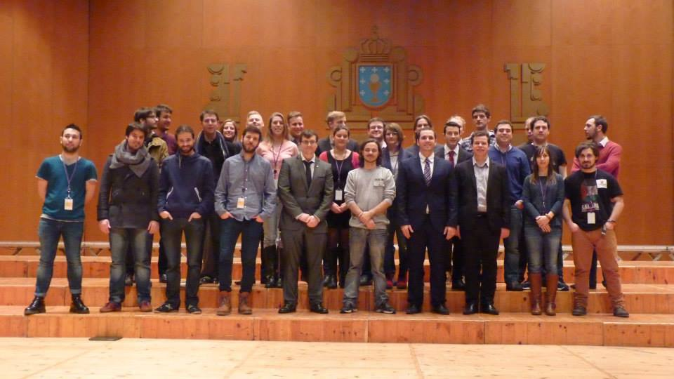 Family Portrait of EFAy delegates in Compostela General Assembly in 2014